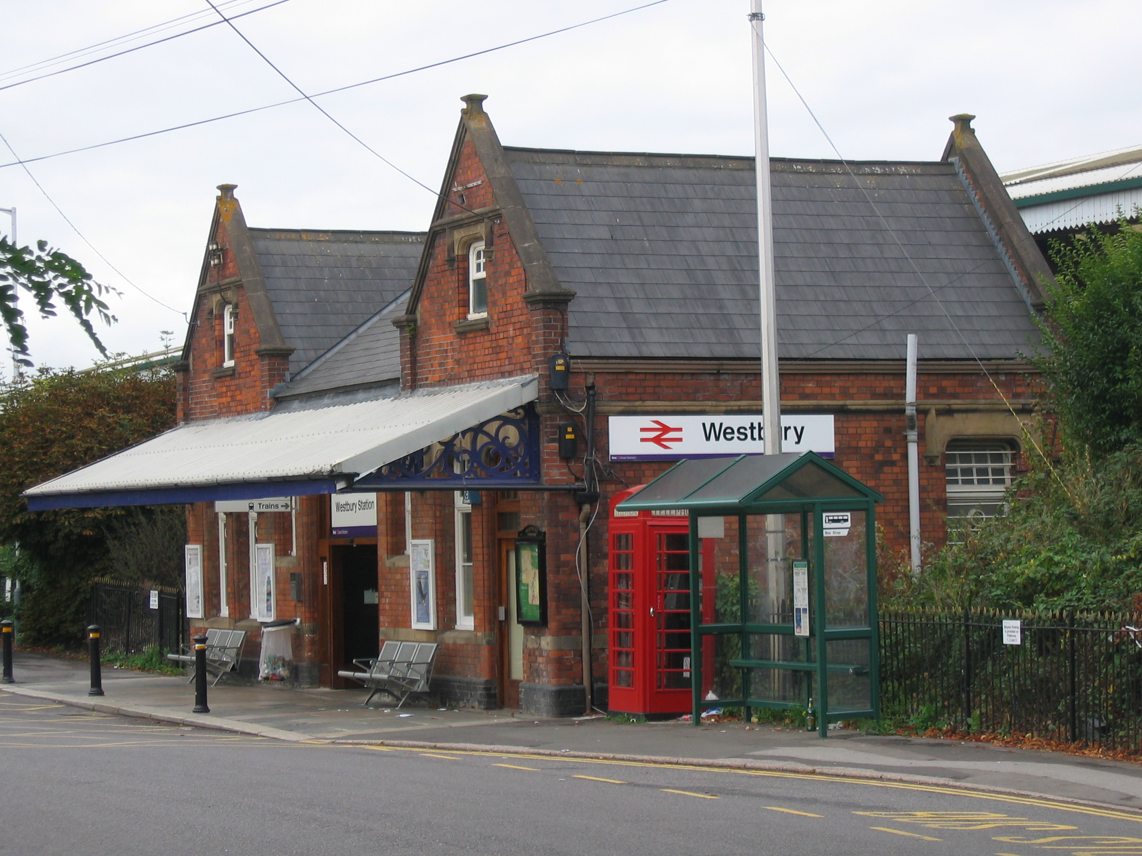 Westbury railway station